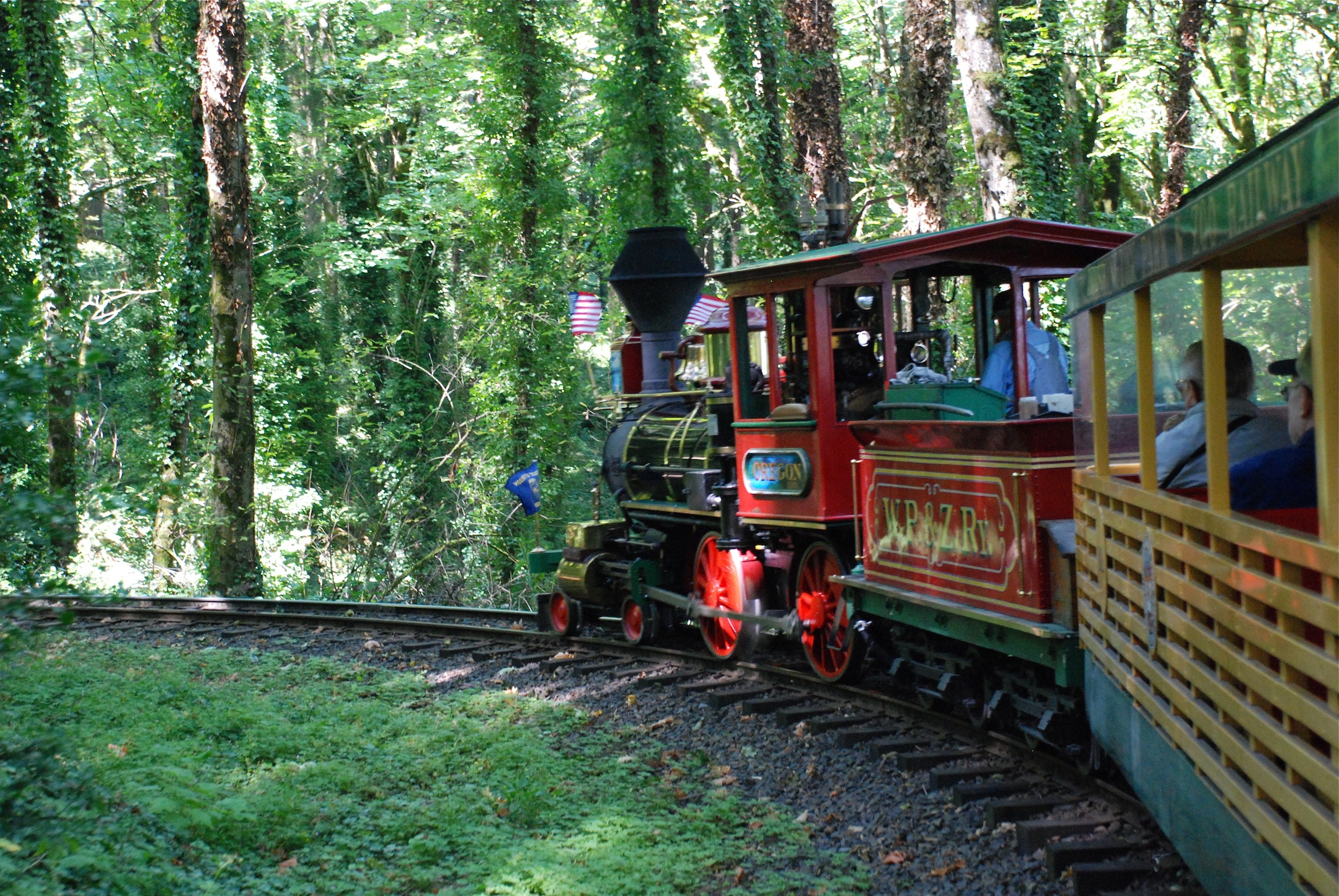 Riding through the woods of Portland, Oregon's Washington Park on the narrow-gauge Washington Park & Zoo Railway. The train in this photo is being hauled by steam locomotive No. 1, the Oregon, which was built in 1959 and is a scale replica of the Virginia & Truckee Railroad 4-4-0 locomotive, Reno (built in 1872). The railroad opened in 1959-60 (as the Portland Zoo Railway) and has a track gauge of 30 inches (762 mm) and approximately 5/8-scale rolling stock. The train is headed towards Washington Park station (located near the city's Rose Gardens) in this view.